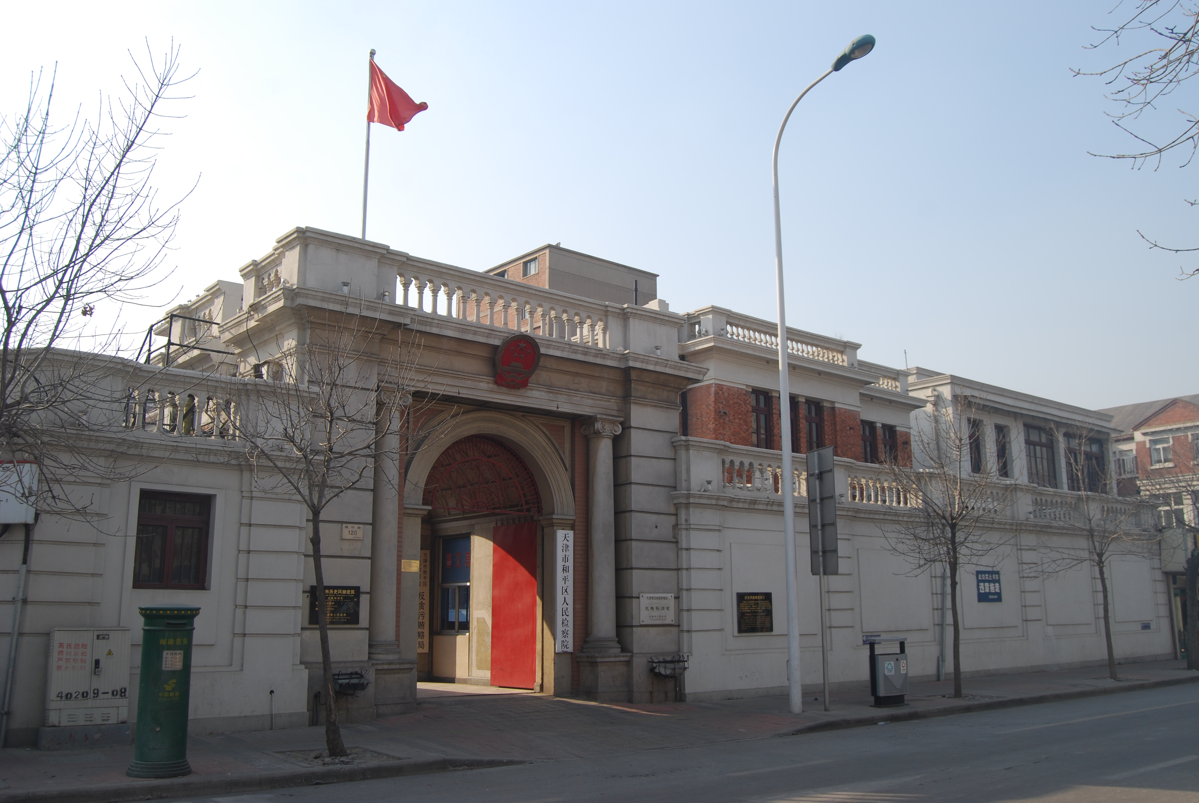 The Former Residence of Yuan LongSun, Xinhua Lu No. 120, Heping District, Tianjin